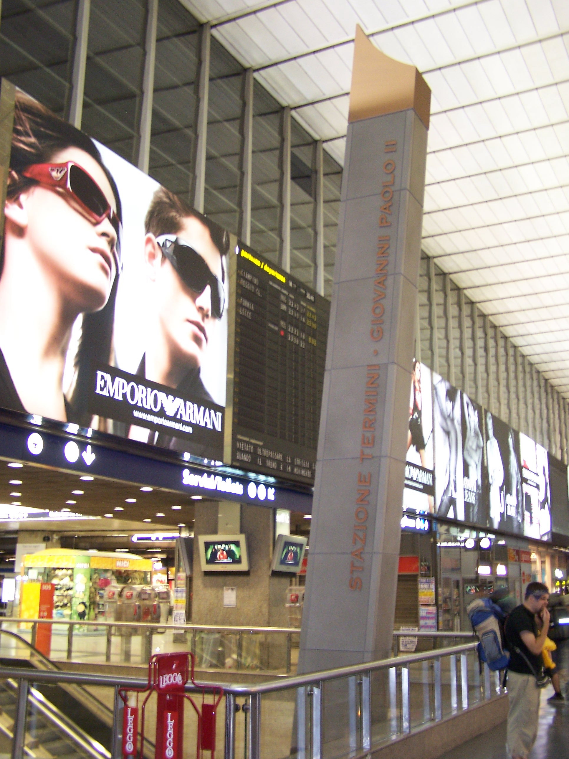 Stazione Termini